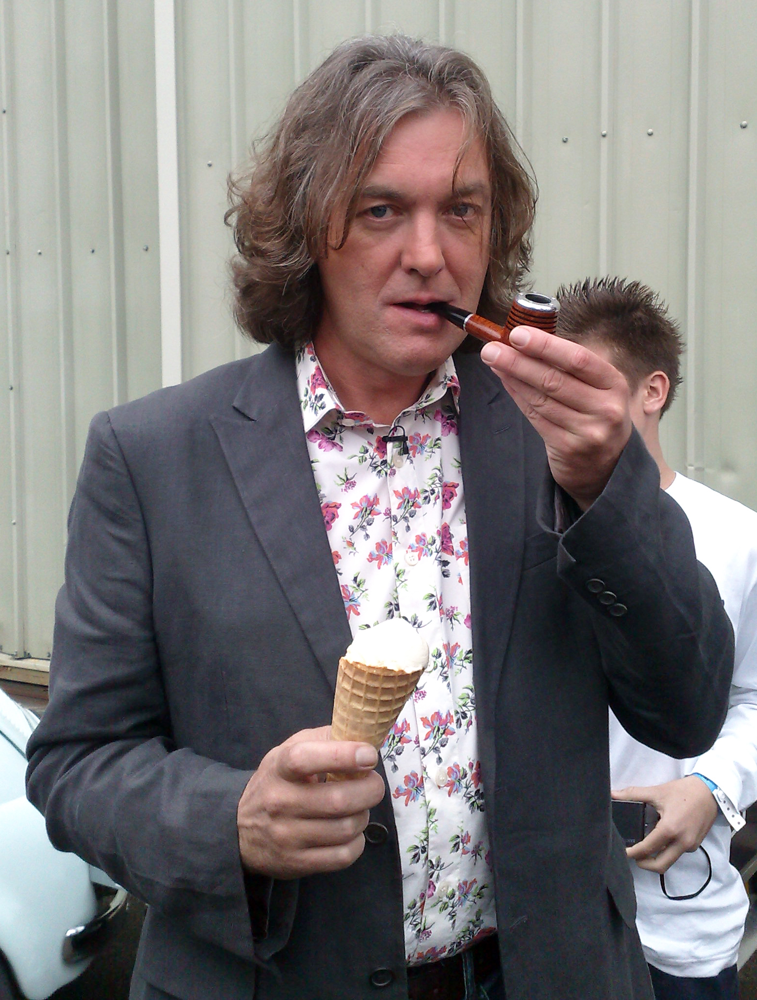 James May at a recording of Top Gear. He is biting a pipe which features in the show during the news section (The pipes are made by Porsche).